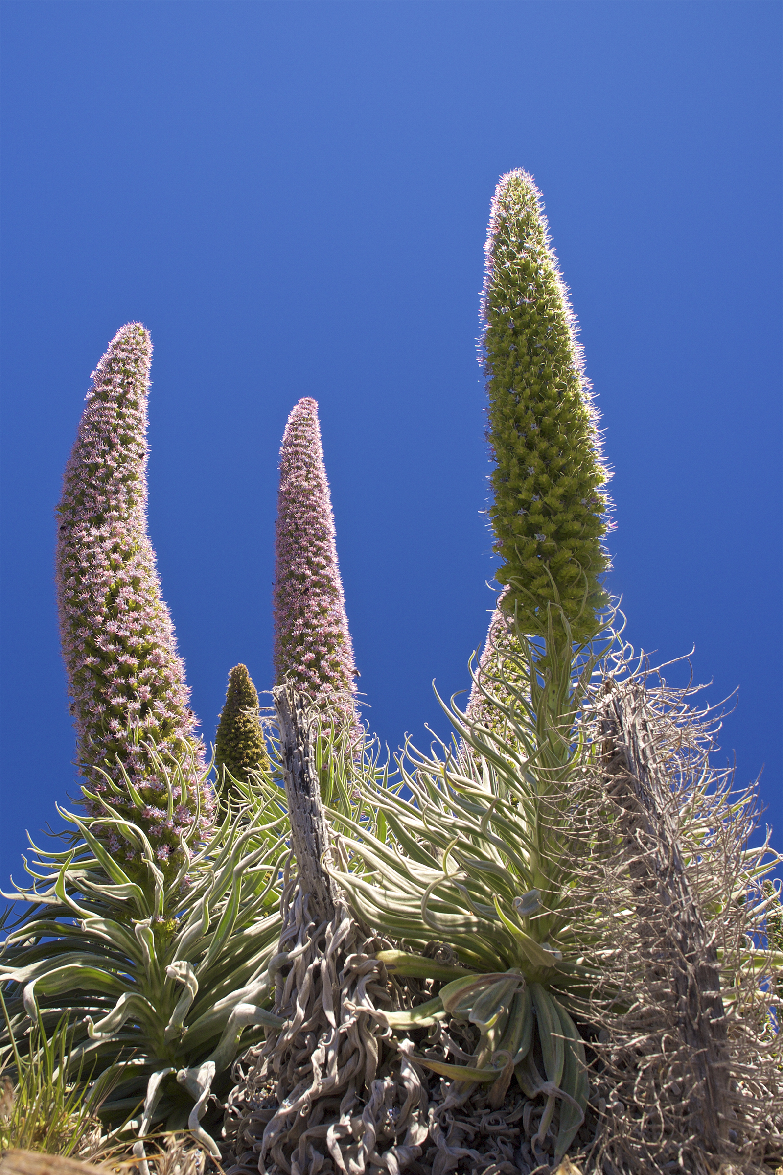 Red Bugloss (Echium wildpretii), La Palma, Canary Islands, Spain